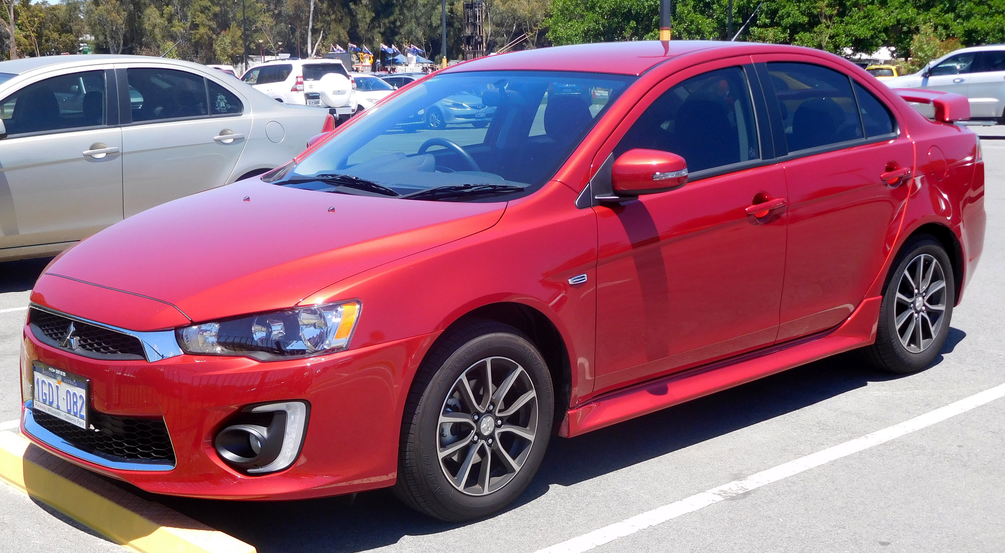 2016 Mitsubishi Lancer (CF MY16) ES Sport sedan. Photographed in Burswood, Western Australia, Australia.